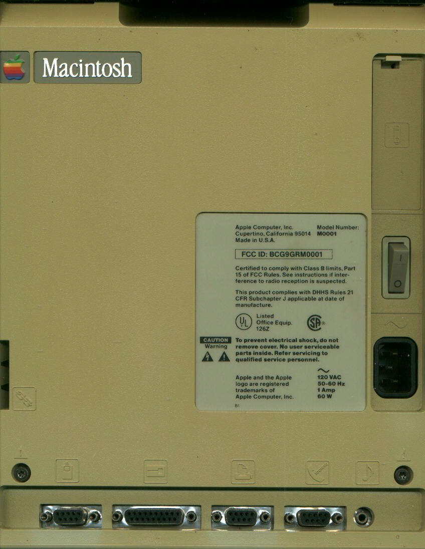 My scan of the back of a still working unaltered original Macintosh (serial # 5132). I have another still working unaltered original Macintosh (serial # 2336). The original Macintosh was a little different than the later Macintosh 128k introduced mid September 1984 with a slightly different ROM and 400k Sony Drive electronics. The first 6000 were in the dealerships when sold on introduction in January 1984. Unfortunately due to lack of internal cooling which was later introduced on the Macintosh SE,early compact Macs as they are called tended to overheat usually causing capacitor failure on the analog board. Failure rates on early Macs would reach 90% over their lifetime due to this problem which was called the dying Mac syndrome. Another problem with the original Macintosh was that over time the grease would harden on the original Sony 400k microdisk drive. Many original Mac's were also upgraded with Macintosh 512k electronics internally. In addition others were either user modified with higher capacity RAM chips or were modified by 3rd parties with an expansion board. Very few original Mac's probably still exist in operational stock condition and many perhaps were discarded due to obsolescence. I demonstrated one of these at the Lakewood Washington U.S.A. Macintosh User Group in 2002.